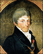 Portrait of Antonio Salieri